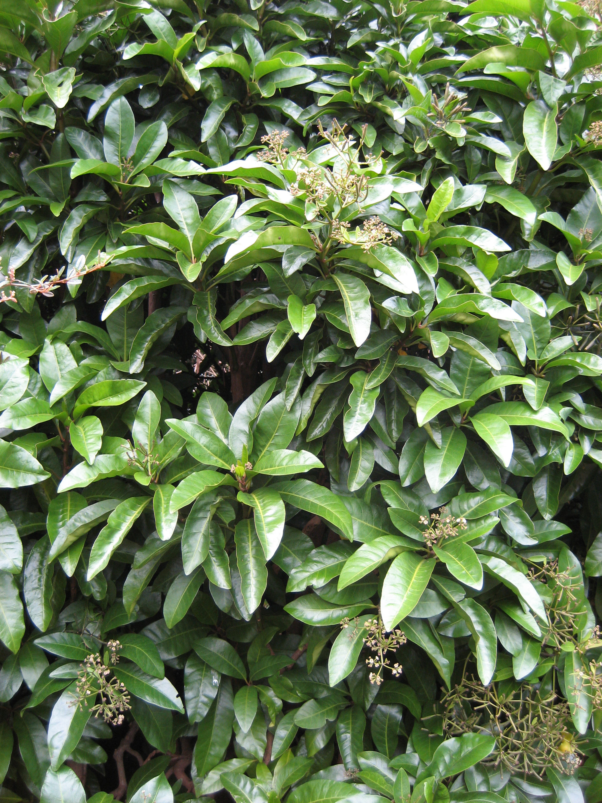 Pisonia brunoniana (Parapara, Bird-catcher tree), Auckland New Zealand.